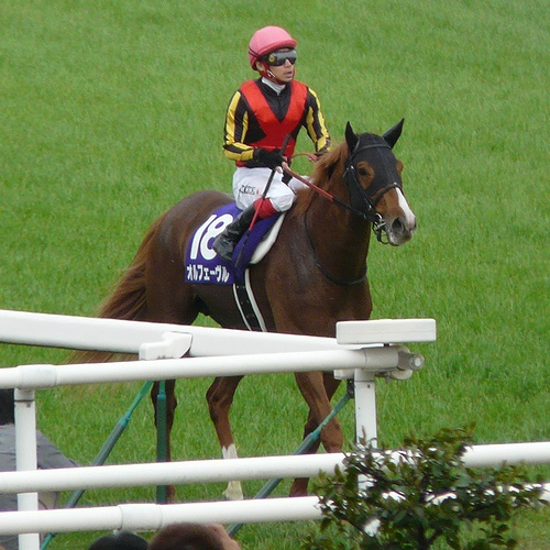 Orfevre at the 2012 Tenno Sho (Spring) horserace